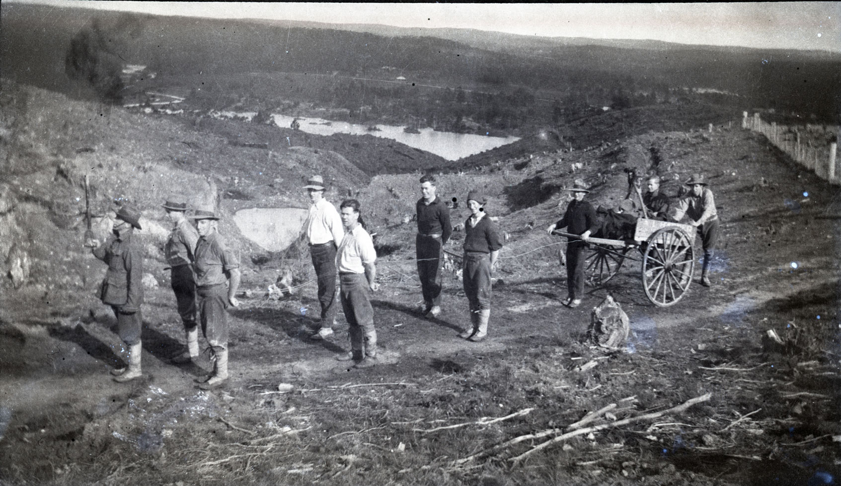 VSF Student Field work - 1930s.